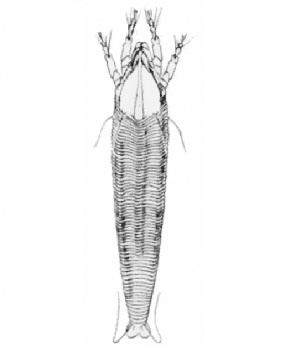 Public domain image. Sourced from CSIRO "Australian Insect Common Names" website. Page containing image URL: Free image information at states: Images marked copyright free have been checked as per the requirements of the Australian Copyright Act and are in the public domain. Kingdom: Animalia Phylum: Arthropoda Subphylum: Chelicerata Class: Arachnida Subclass: Acari Superorder: Acariformes Order: Prostigmata Suborder: Eupodina Superfamily: Eriophyoidea Family: Eriophyidae Genus: Abacarus Species: A. hystrix